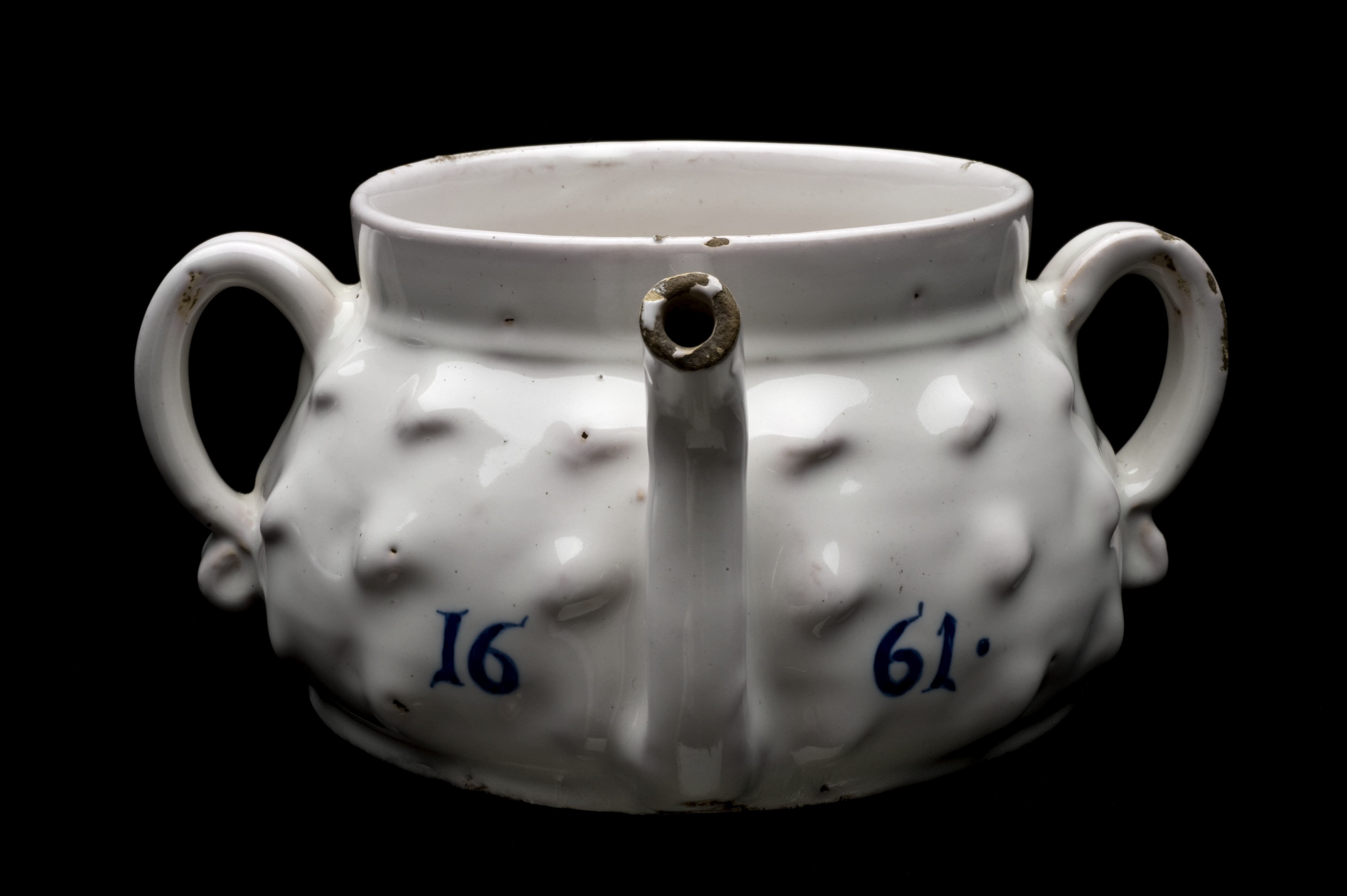 Posset, made from hot milk curdled with ale or wine, and sometimes thickened with breadcrumbs, was drunk as a popular remedy for colds. Spices could also be added to the mixture. This pot, which was used to store posset, is made from tin-glazed earthenware. The pot is decorated with three rows of raised bumps formed by a technique known as repoussé, where the clay is hammered from the inside. This pot has the numbers “16” and “61” either side of the spout which almost certainly indicate when the pot was made. maker: Unknown maker Place made: London, Greater London, England, United Kingdom Wellcome Images Keywords: posset pot; feeding; Nursing